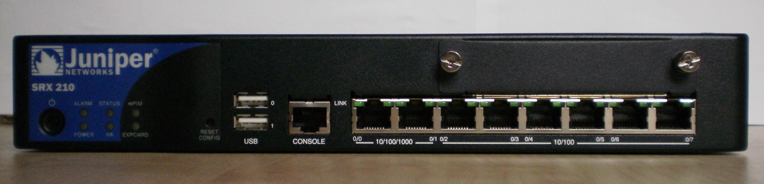 Front side of a Juniper SRX210 service gateway